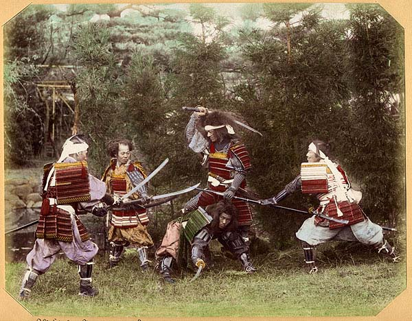 Samurai in old-Style Armor, ca. 1880, tinted albumen print